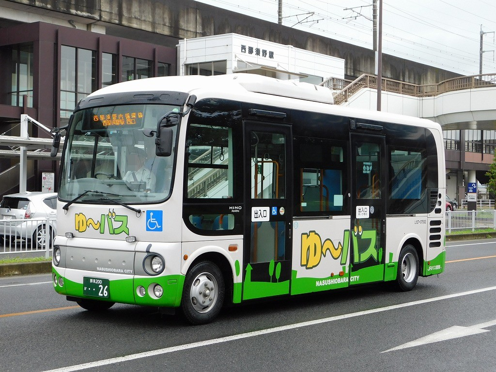 JR bus Kanto(Nishinasuno branch) Hino Poncho(BDG-HX6JLAE)for Nasu-Shiobara city Bus "Yu-bus"